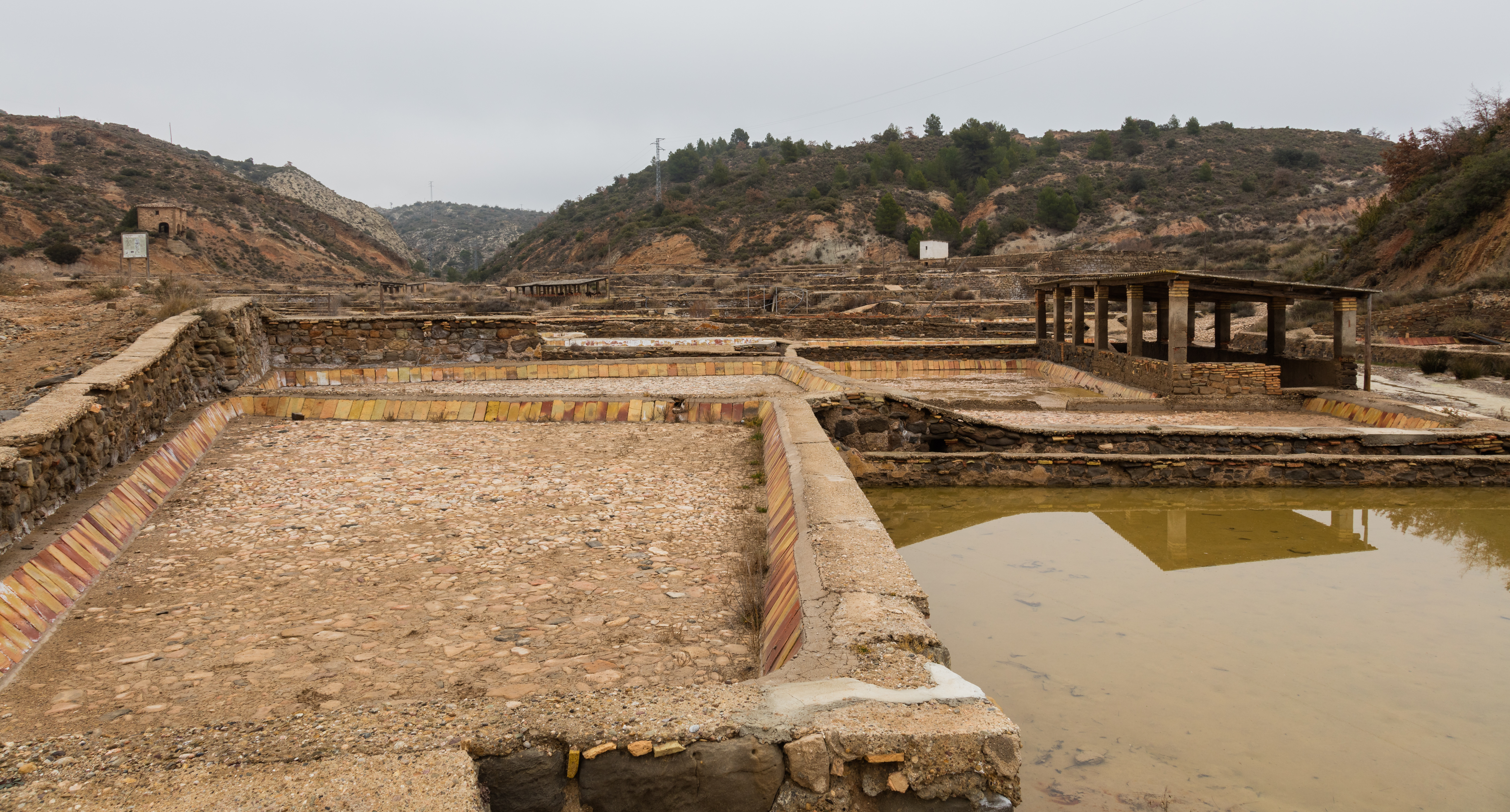 Salt evaporation ponds of Peralta de la Sal, Huesca, Spain